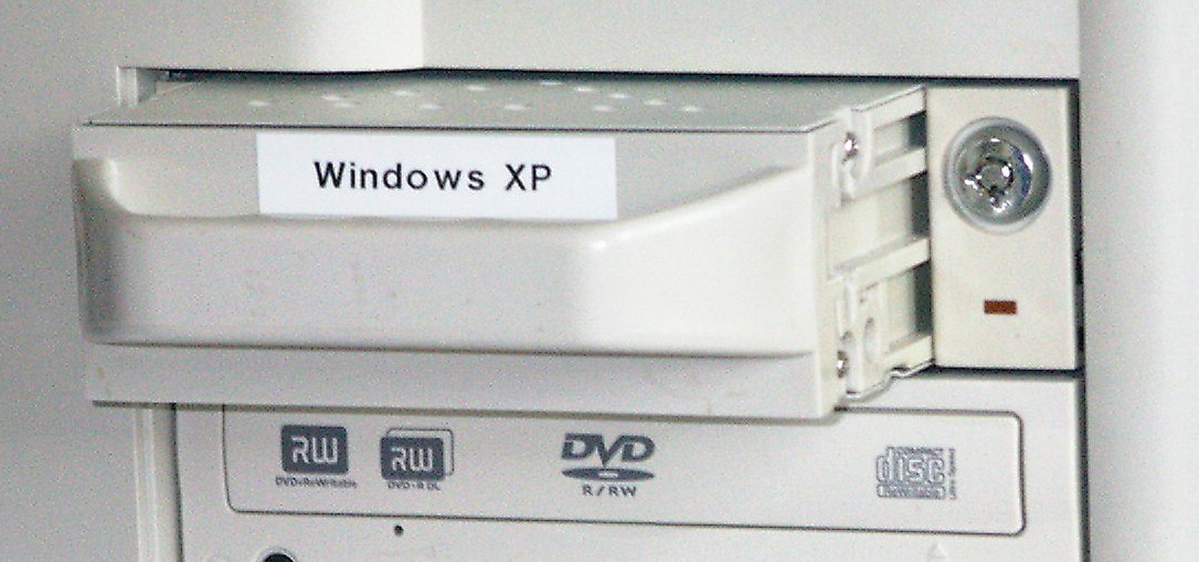 I took the picture myself (User:Ysangkok). 19:04, 27 June 2006 (UTC)